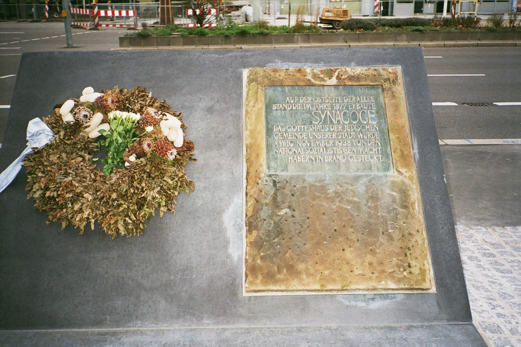 Heilbrnn-synagogengedenkstein.JPG